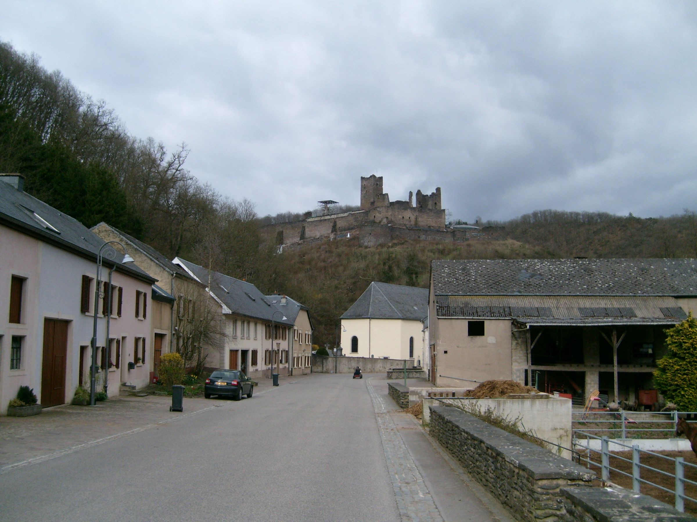 The village and castle of Brandenbourg, Luxembourg. View from south-west, street named "Schlapp".